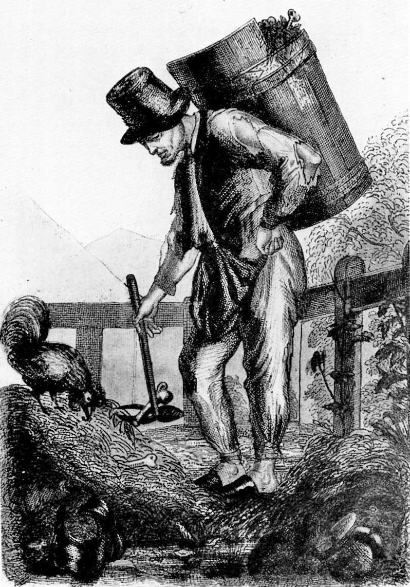 Bone collector who searches the garbage for bones and sells them to factories (production of soap, buttons, etc.)